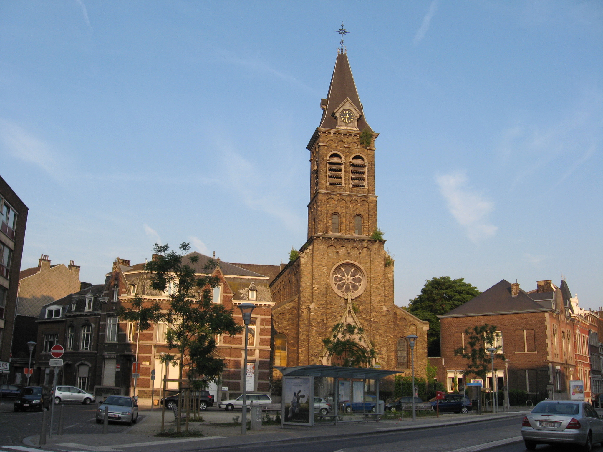 Church of Our Lady of the Angels in Guillemins, Liège, Belgium